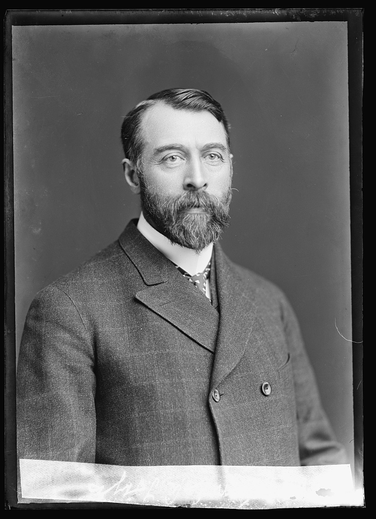 Everis Anson Hayes photographed by C M Bell Studio